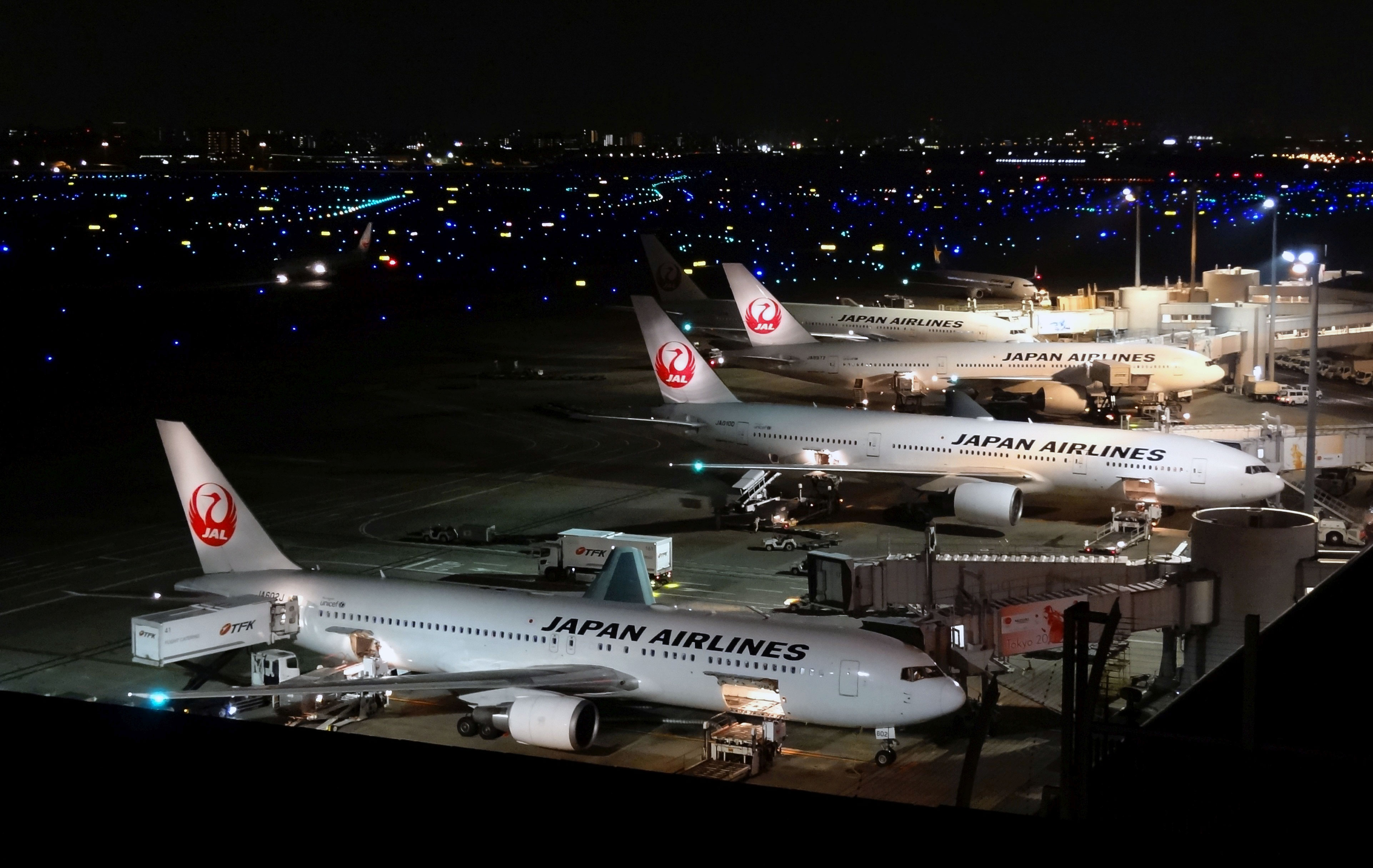 Cropped away empty space This file has been extracted from another file: Haneda Airport T1 Night View.JPG